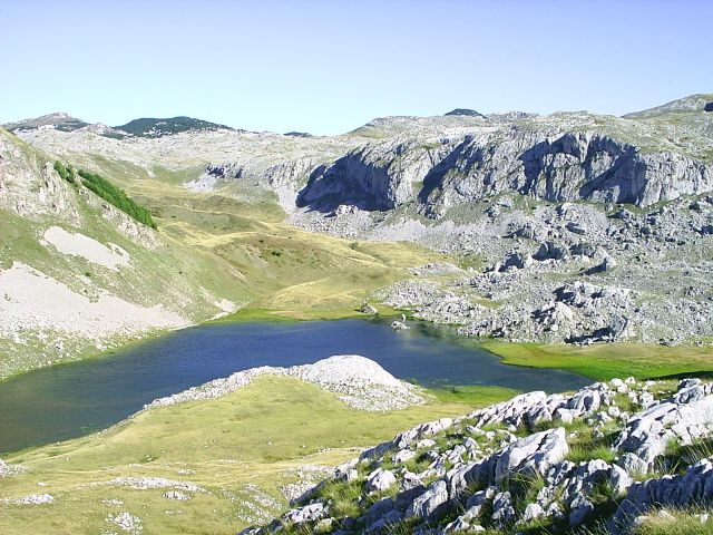 Kotlaničko jezero lake in Zelengora mountains, BiH